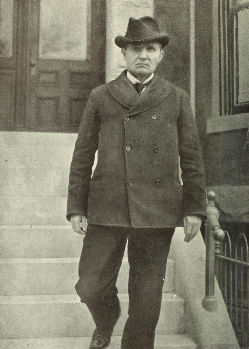 Picture of Benjamin Tillman